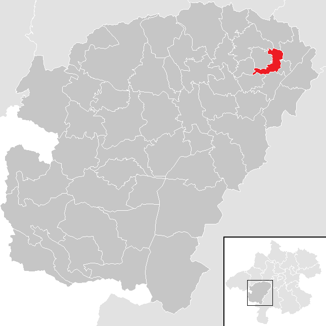 District Vöcklabruck